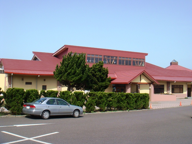 Gojinka-onsen Spa, Izu Oshima.